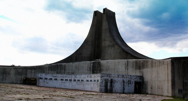 This media shows a South African Protected Site with SAHRA file reference [1].